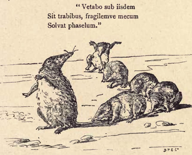 Suncus murinus illustration from Eha tribes on my frontier